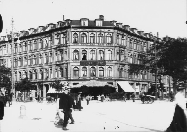 Central Hotel or Centralhotellet with Café Paraplyen, defunct and demolished hotel at Rådhuspladsen 16/Vesterbrogade 2A, Copenhagen (1874-1934)